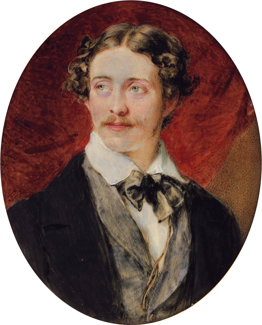 Portrait of Francis Jack Needham, Viscount Newry (1815-1851)